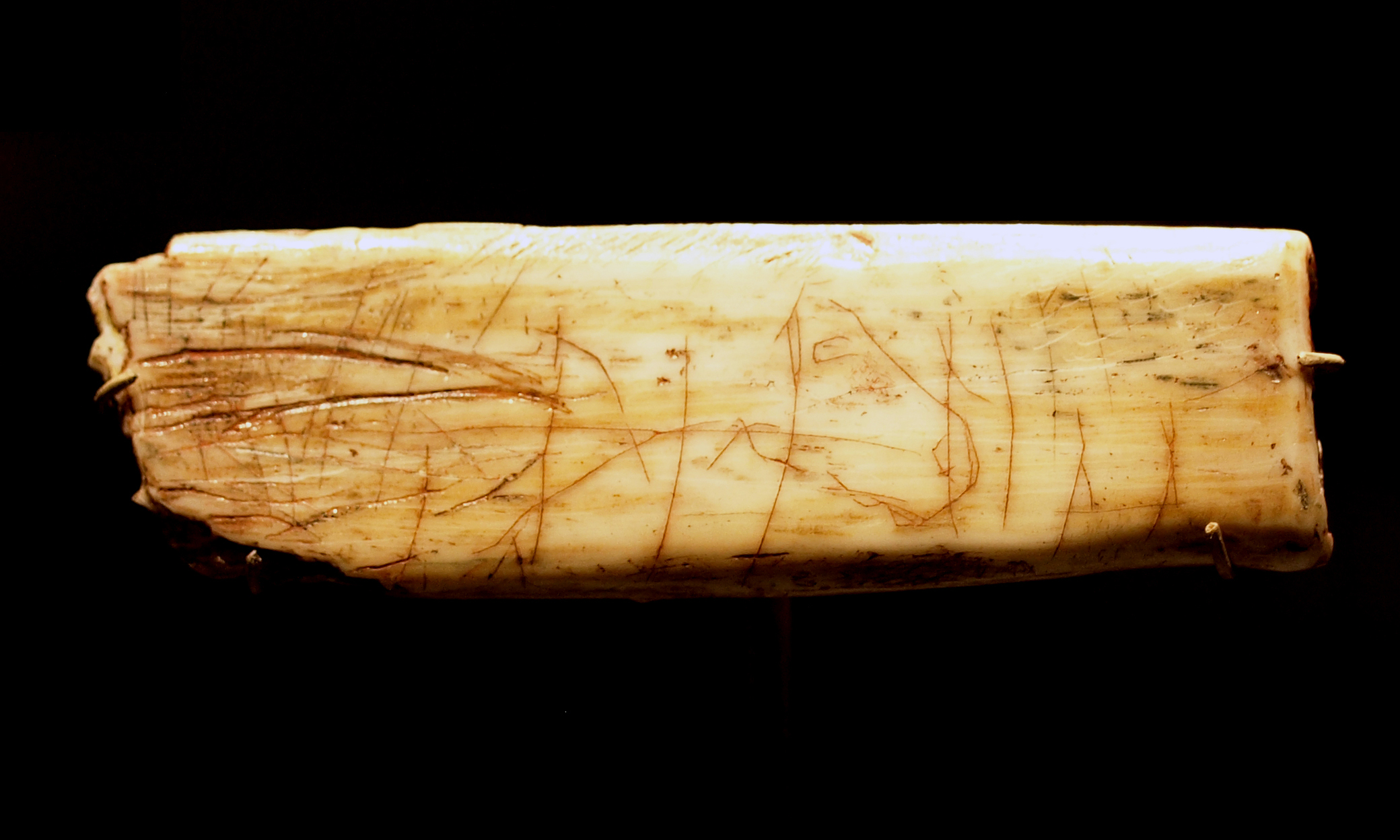 Creswell Crags The Ochre Horse This original fragment of a rib bone contains the oldest known carving of its type in Britain. The horse was carved approximately 12,500 years ago and was on temporary display at the small museum at Creswell Crags to November 2009 (although a replica of the ochre horse is always on display). It was found on the 29th June in 1876 at the back of the western chamber in the 'Robin Hood Cave' in Creswell Crags. Sieveking 855, British Museum; more information can be found at the original website